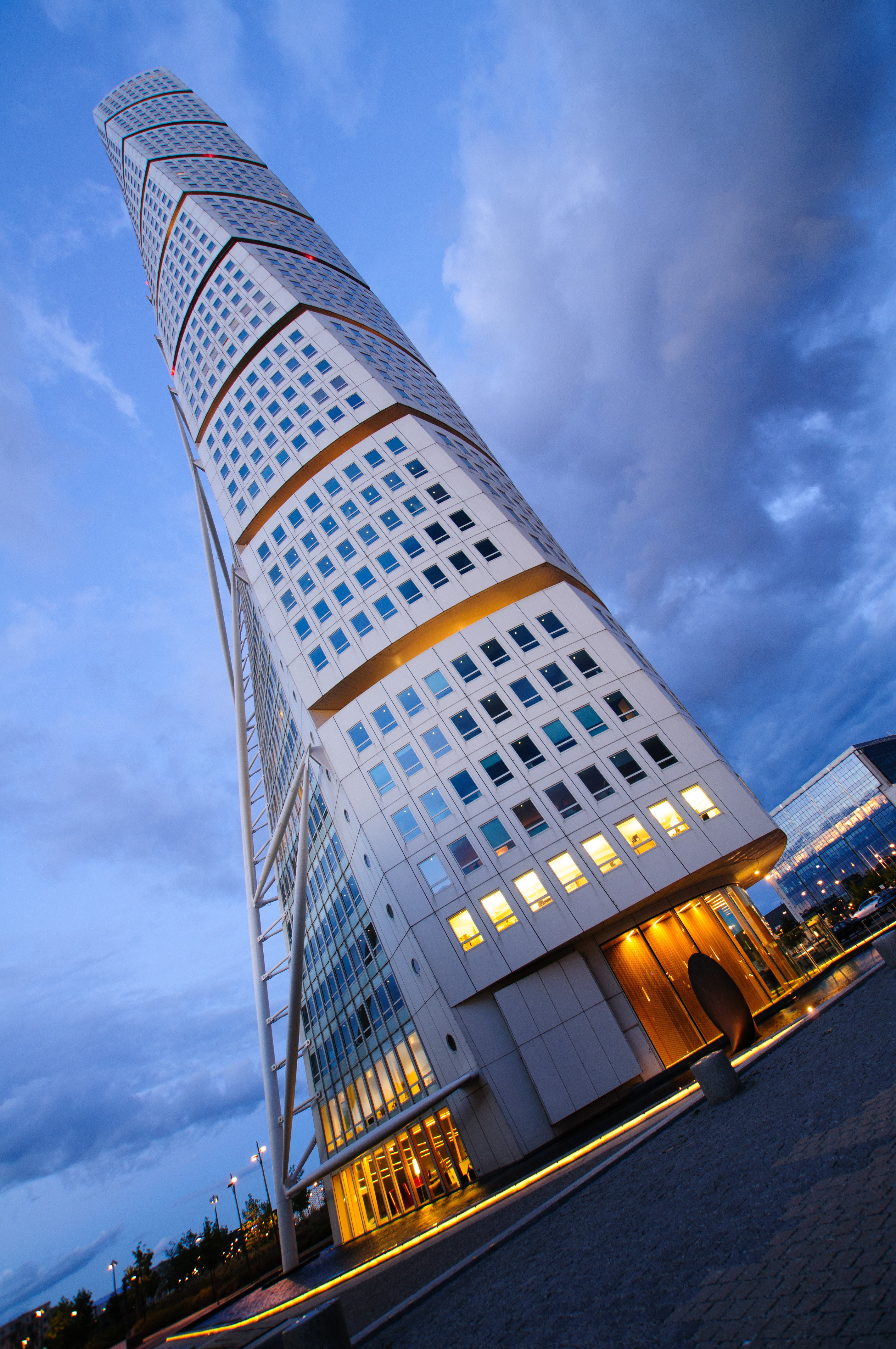 Tallest skyscraper in Sweden